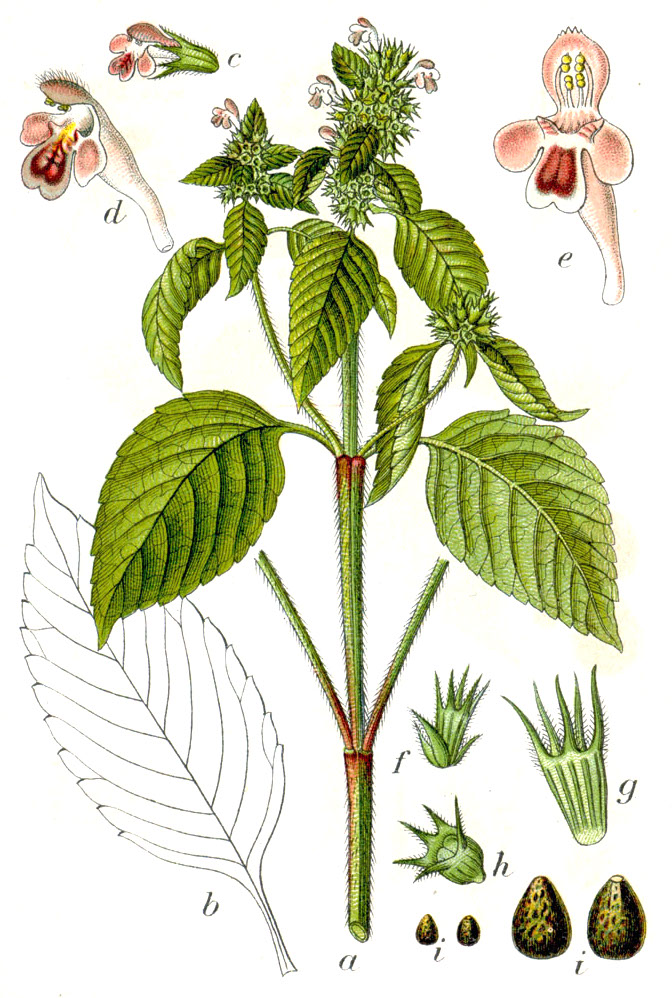 Galeopsis bifida Boenn. Original Caption Boenninghausens Hanfnessel, Galeopsis bifida